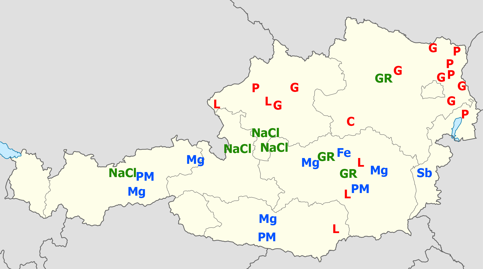 Natural resources of Austria. Metals are in blue, PM — polymetal ores (Cu, Zn, Pb, etc.). Fossil fuels are in red (C — coal, L — lignite, P — petroleum, G — natural gas). Non-metallic minerals are in green (NaCl — salt, GR — graphite). Data is according to the map: Austria. Moscow: GUGK SSSR, 1984.